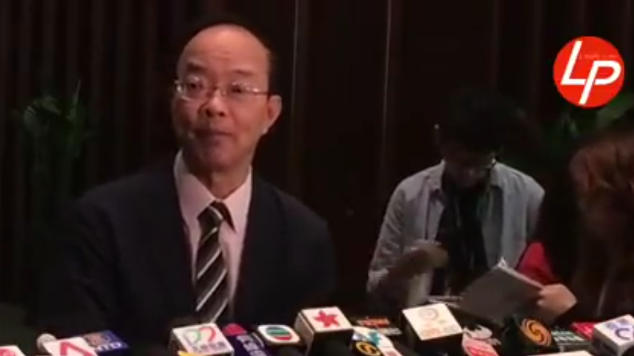 Ma Fung-kwok, member of the Legislative Council of Hong Kong, addressed the media outside the Chamber. 粵語: 香港立法會議員馬逢國喺會議廳外見記者。